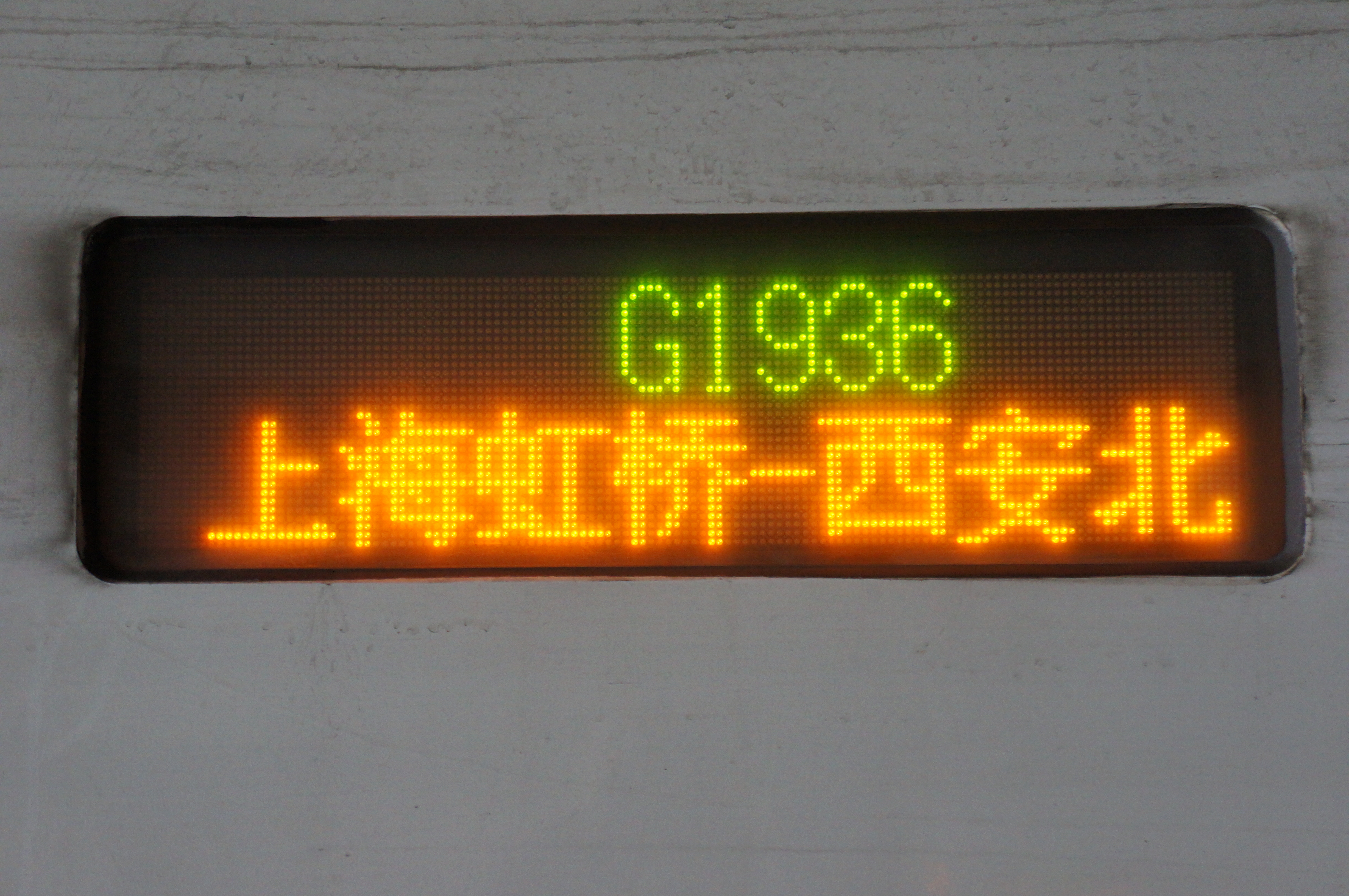 G1936 info board in 201701. Unlike File:201609 G1936 waits for departure at Shanghai Hongqiao Station.jpg G1813-1936 was using CRH380AL during the Chunyun period.